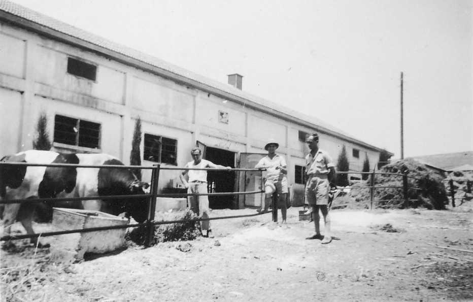 the dairy in tel yoseff in the 30\'